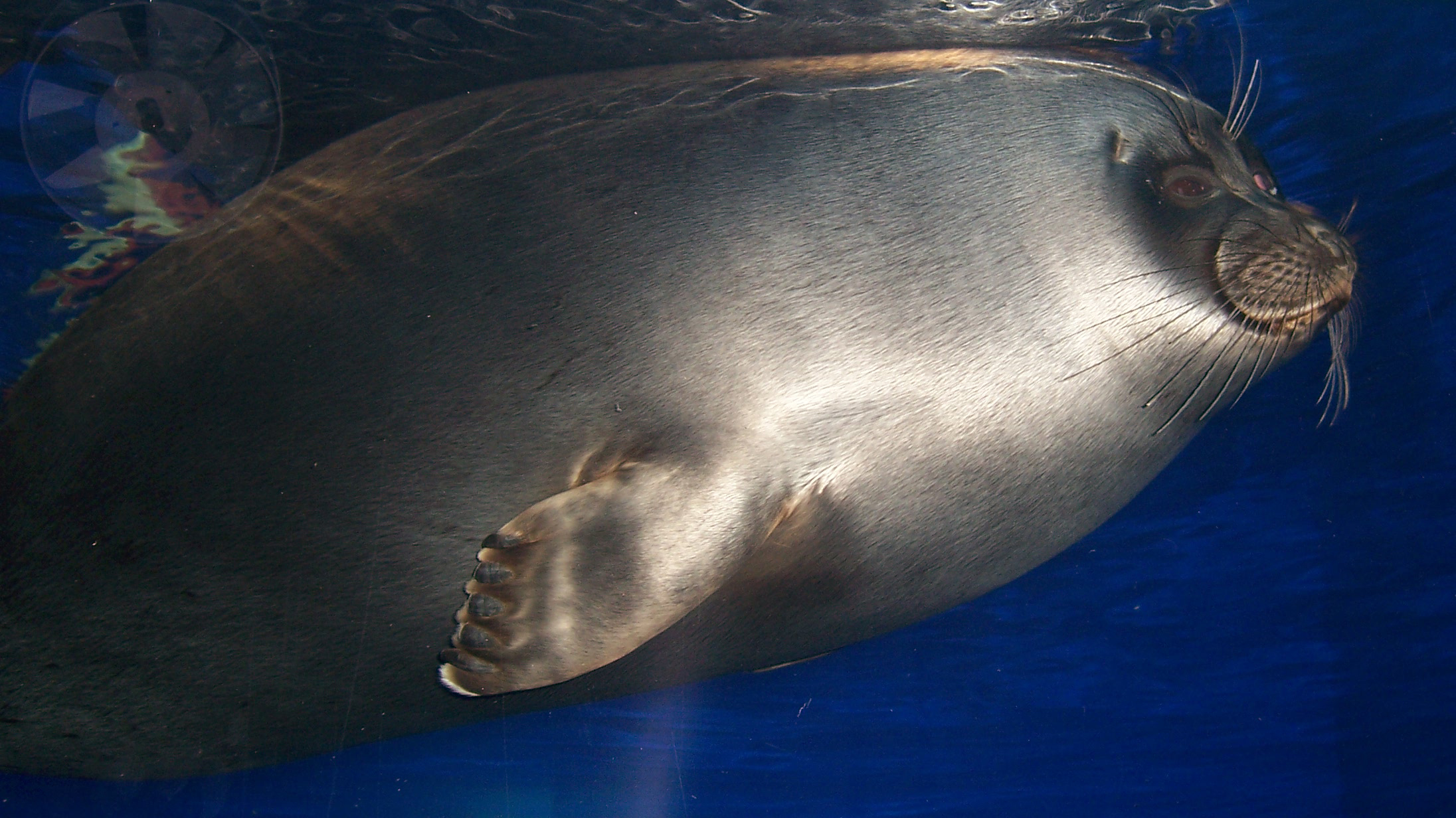 Baikal seal in the Baikal museum in Listwjanka